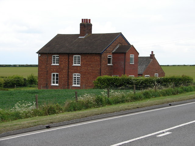 House opposite Barr Farm off the A158